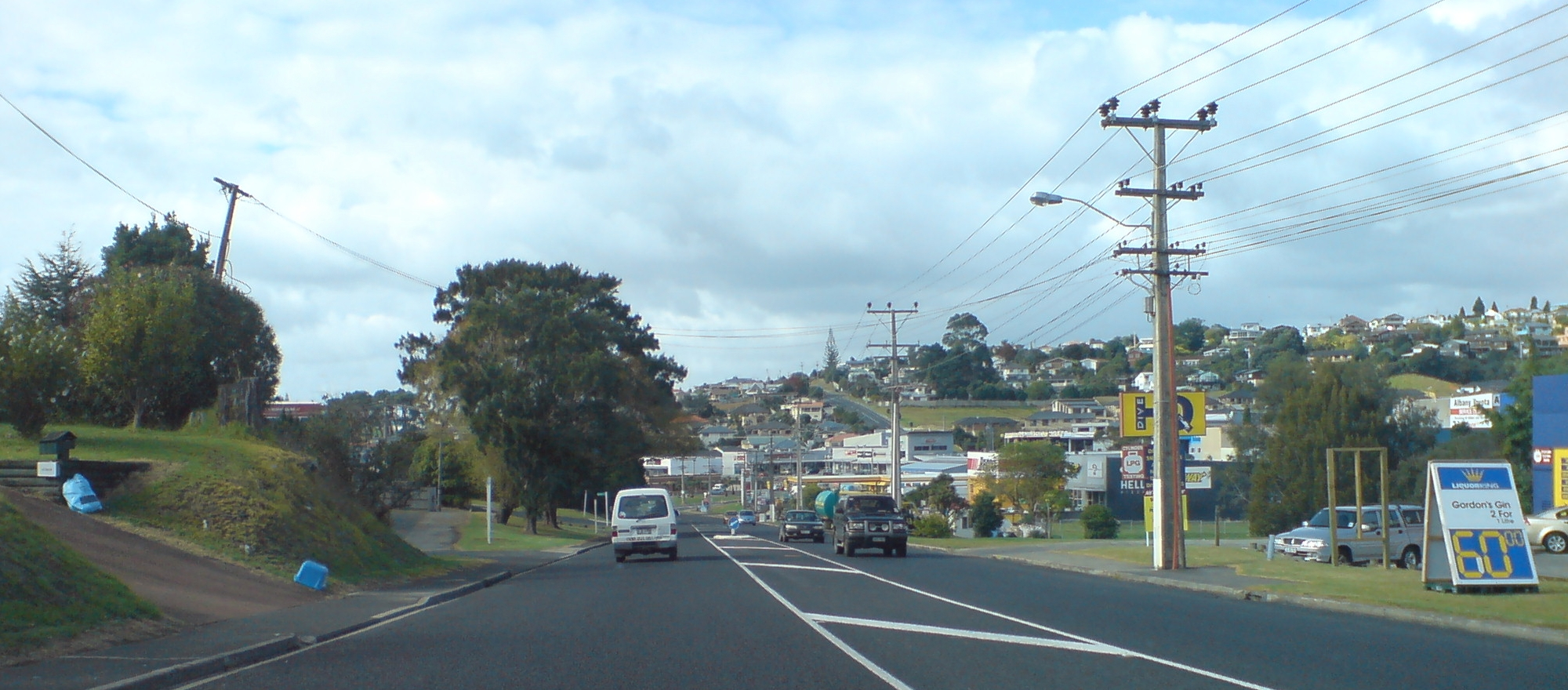 The main road on Whangaparaoa Peninsula in Auckland, New Zealand. Coordinates are approximate.